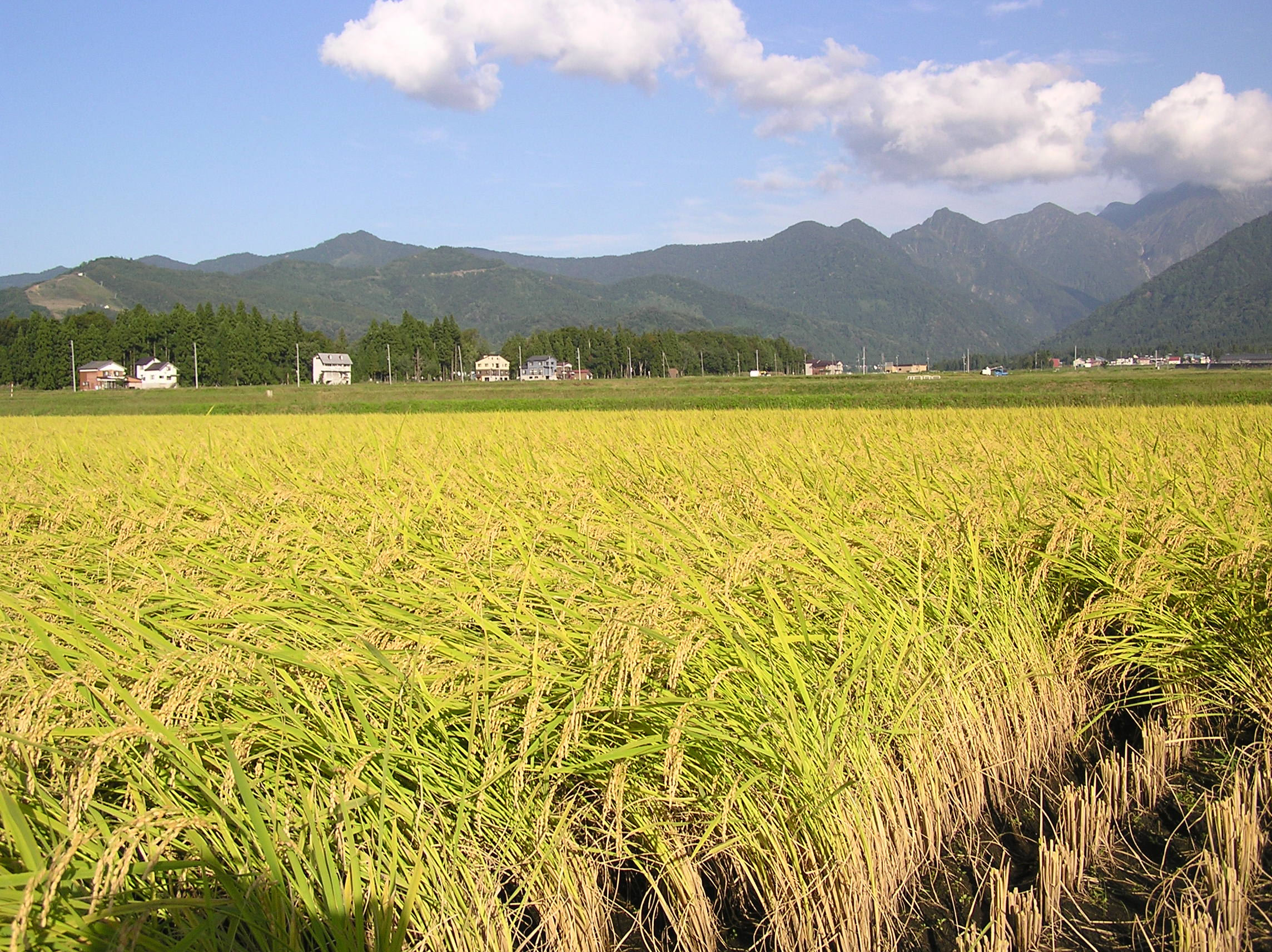 Paddy fields and mountains in Minami Uonuma city, Niigata prefecture, Japan. Photo by: S. J. Wong